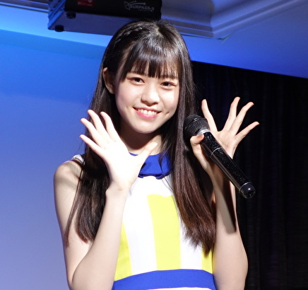 パクスプエラライブにて撮影